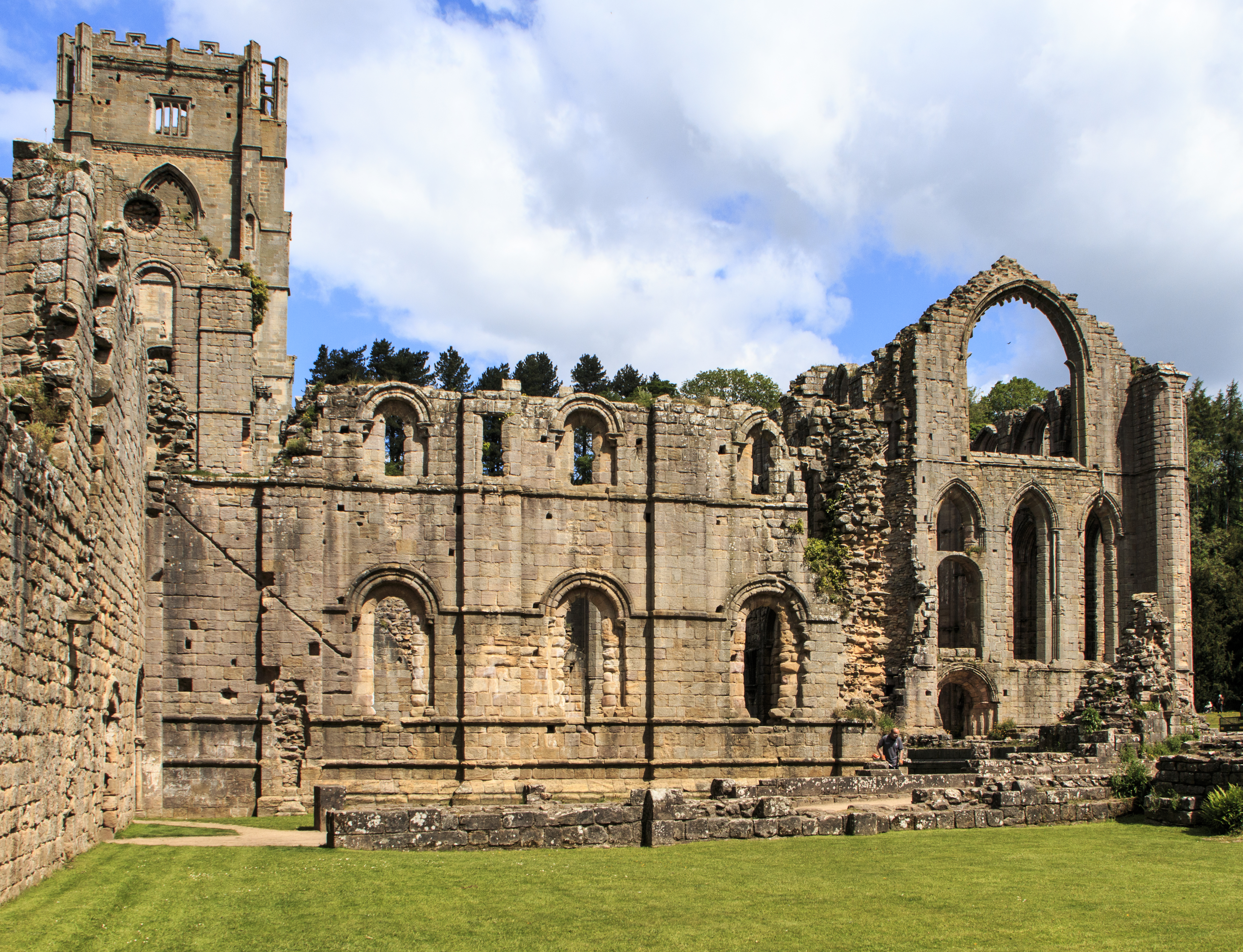 Fountains Abbey and Studley Royal Water Garden World Hertitage SIte National Trust Yorkshire